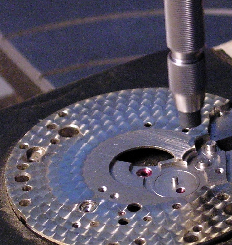 Semimanually application of a perlage pattern on a movement plate.